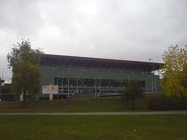 City Arena Zenica